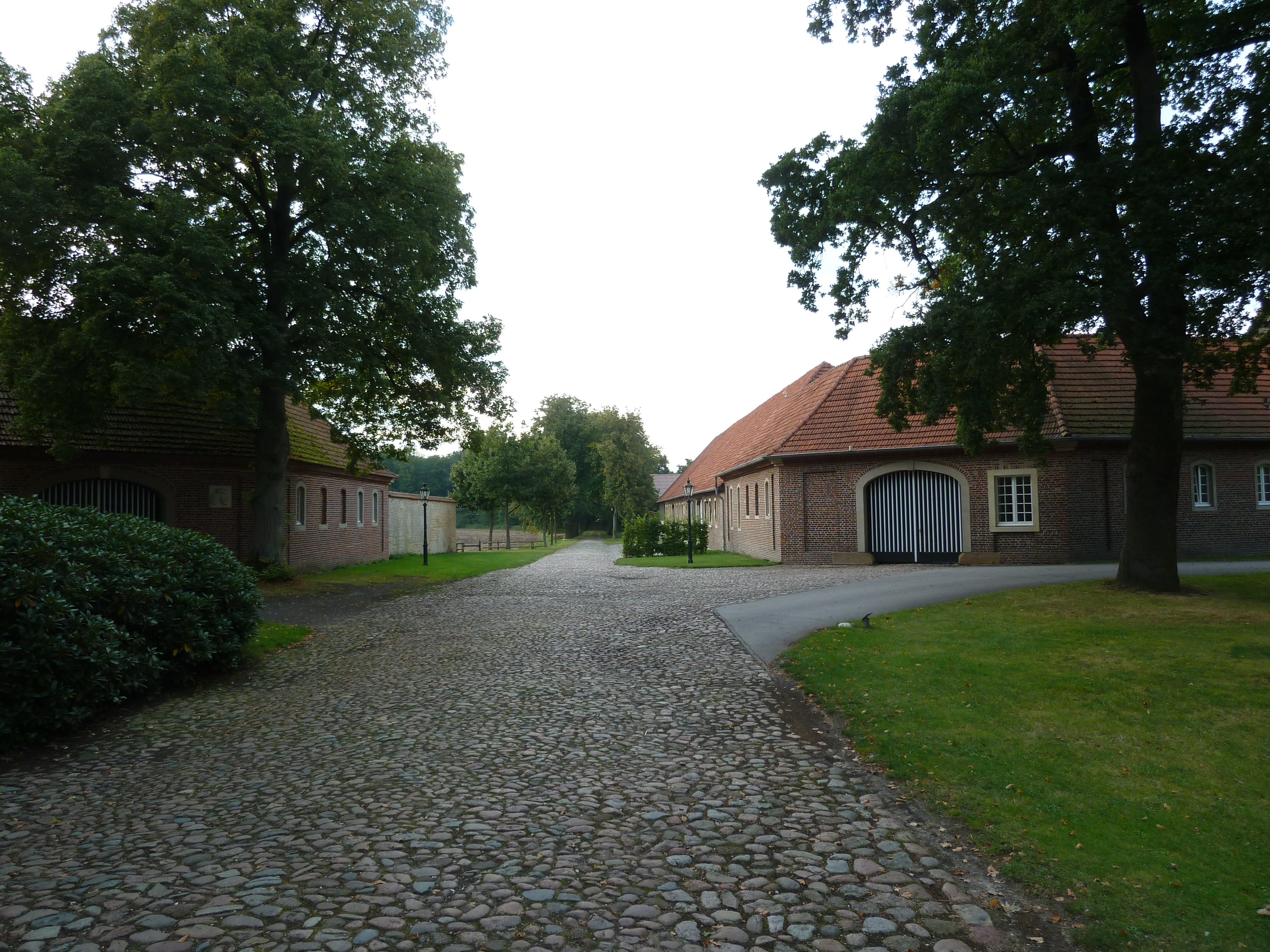 Farm-buildings of Darfeld castle